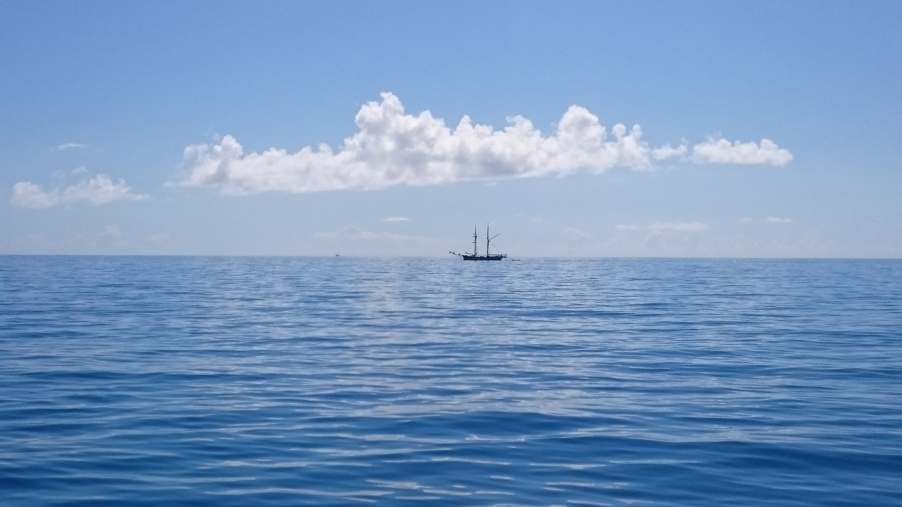 The Solway Lass on the horizon in the Whitsunday Isles